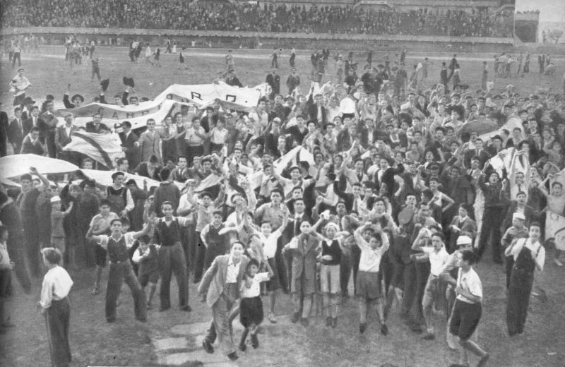 Pitch invasion of River Plate supporters during the 1945 league title.